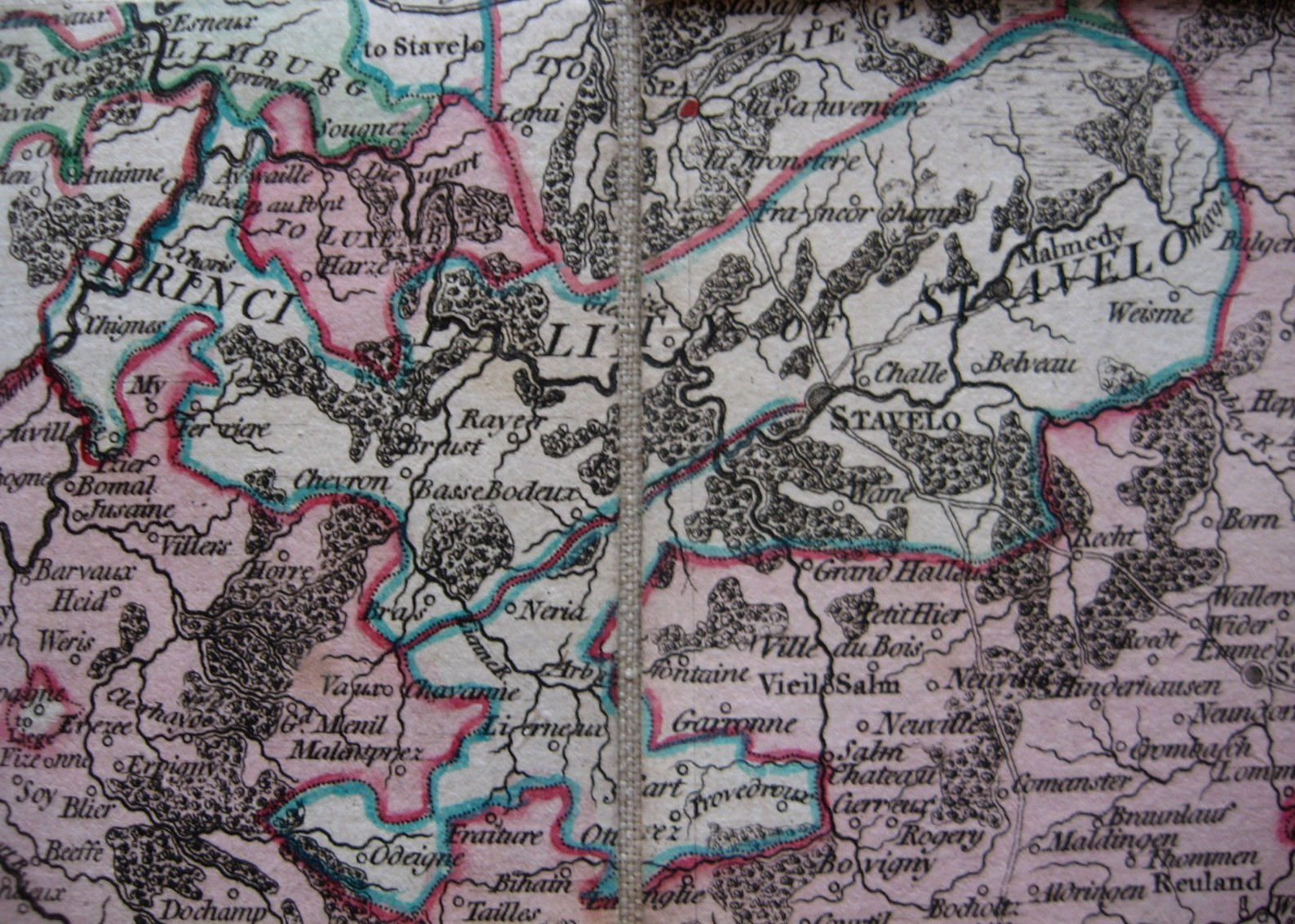 The Abbey of Stavelot (German: Stablo), or Stavelot-Malmedy, was an ecclesiastical principality of the Holy Roman Empire until its suppression during the French Revolution. The principality was almost entirely surrounded by the Duchy of Luxemburg (in pink) that was then part of the Austrian Netherlands. Cropped from a map of the Southern Netherlands published by William Faden in 1789.